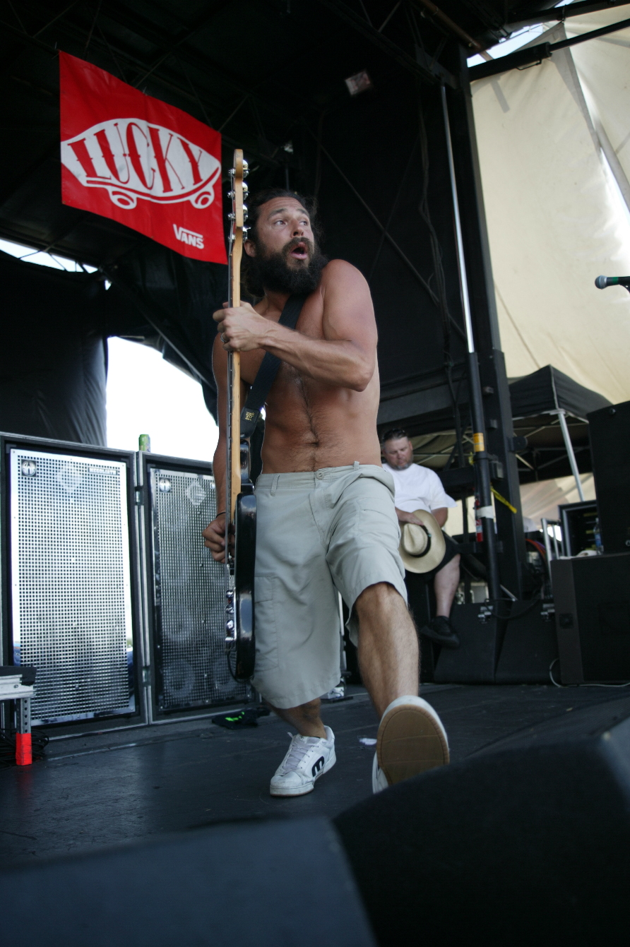 Pepper, perofrming at Las Cruces, NM as part of the Vans Warped Tour, Photograph by John Kloepper